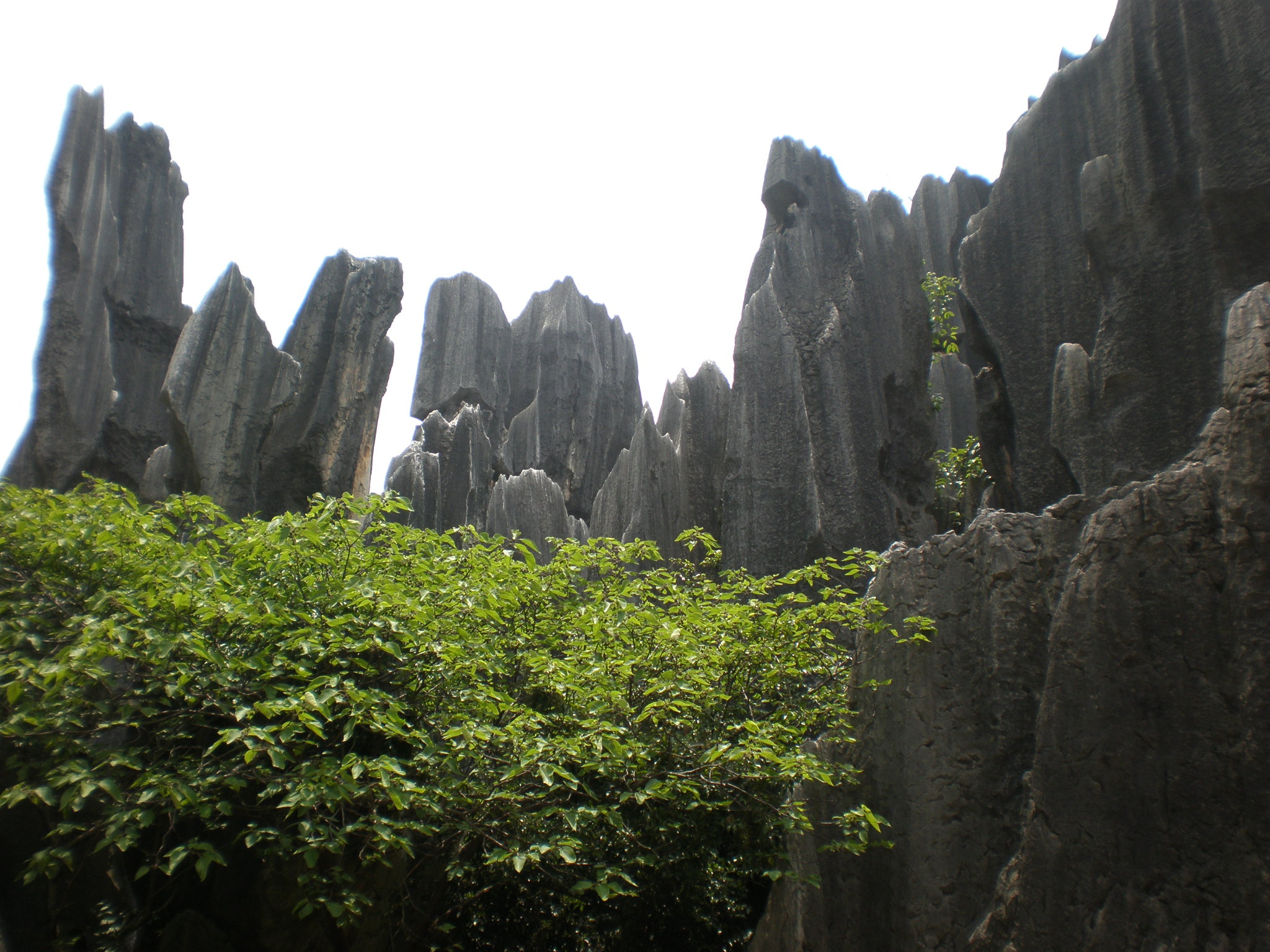 A section of the central area of the Major Stone Forest, the main portion of the Stone Forest in Yunnan.